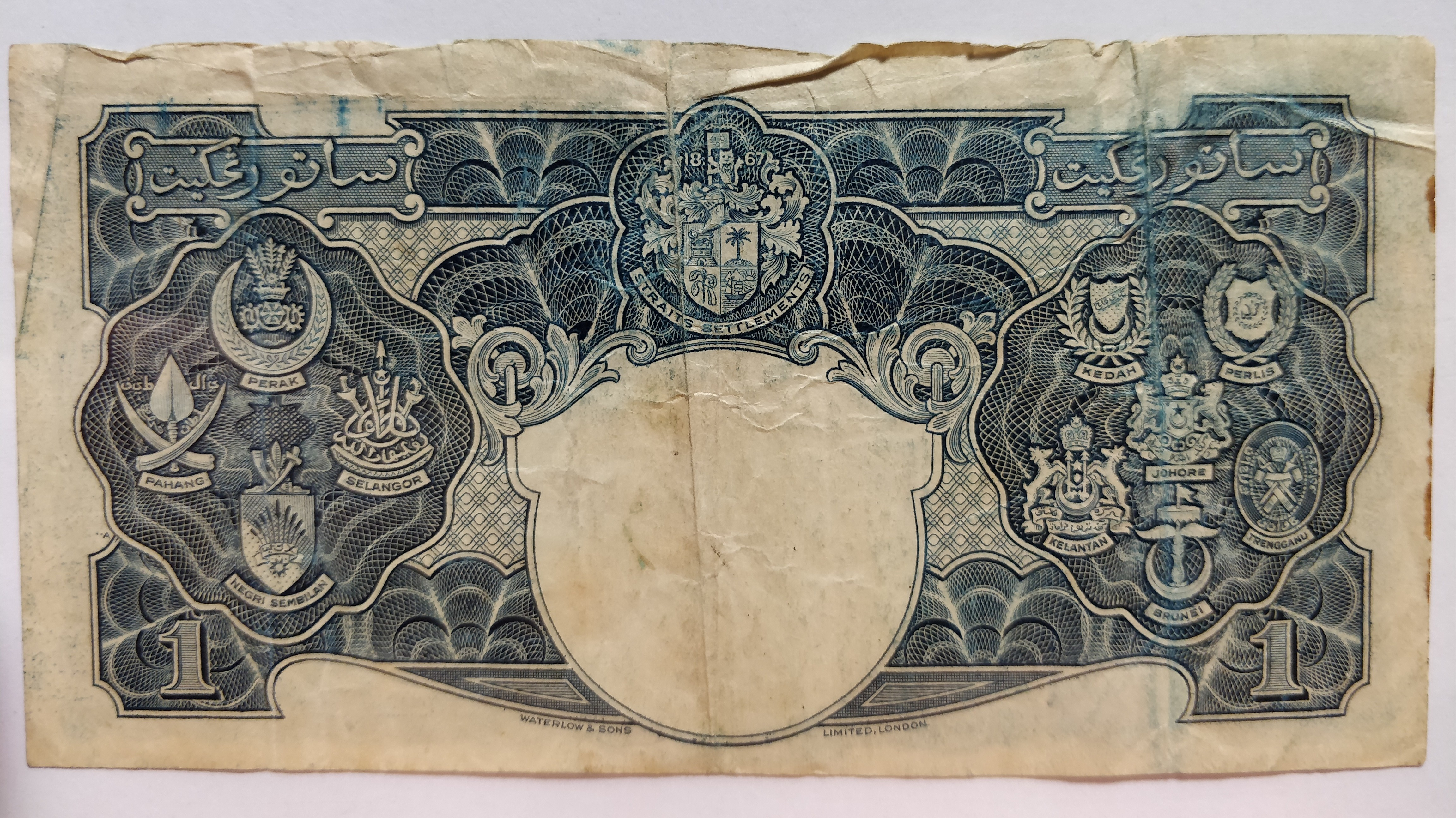 Malayan Dollar Note, $1, Reverse Blue